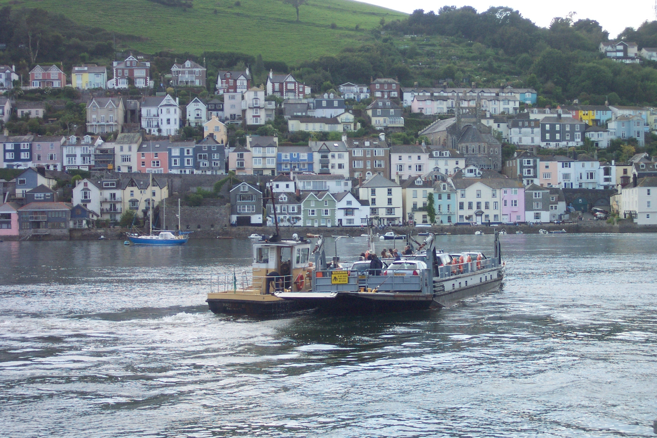 The Dartmouth Lower Ferry crossing towards Dartmouth (in background). For more information, see the Wikipedia article Dartmouth Lower Ferry.